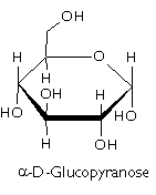 α-D-glucopyranose